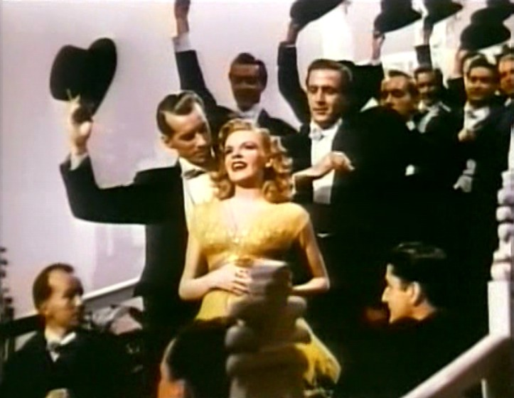 Cropped screenshot of Judy Garland from the film Till the Clouds Roll By.